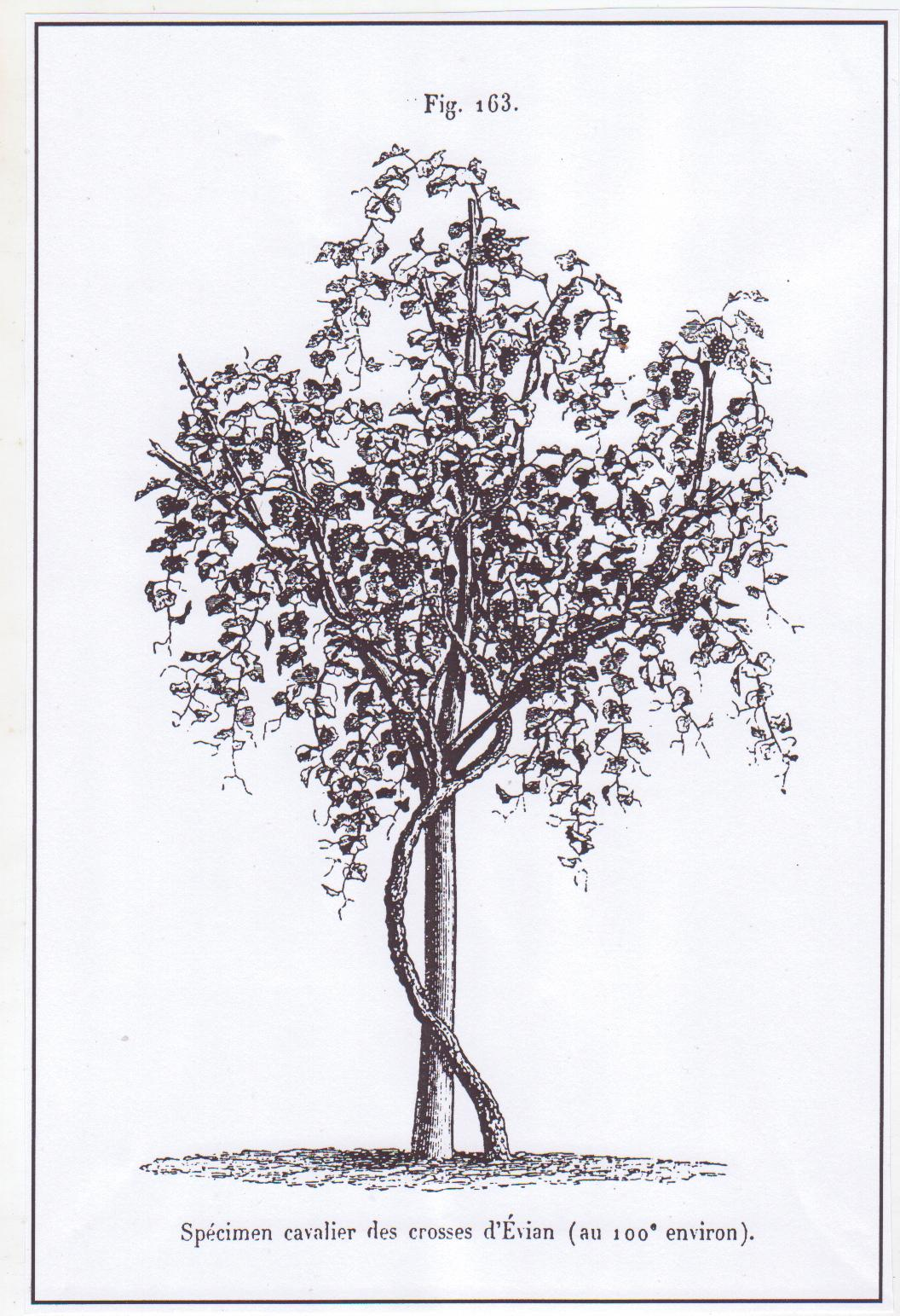 Crosses of Evian